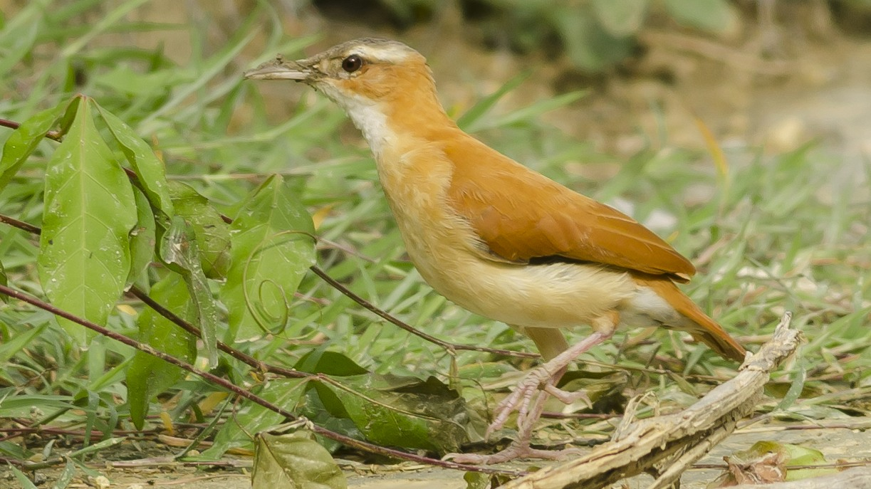 Pale-legged Hornero (Furnarius leucopus longirostris) in Puerto Colombia, Atlántico, Colombia